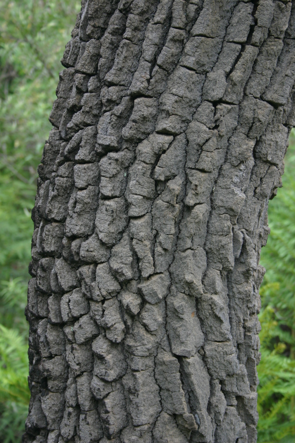 Trunk/bark of Faurea saligna, Magaliesberg, South Africa